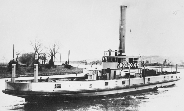 Kara Kara just after being built in the United Kingdom in 1926